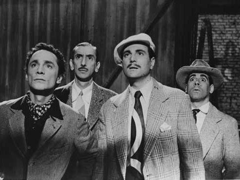 Desalmados en pena- película argentina de 1954